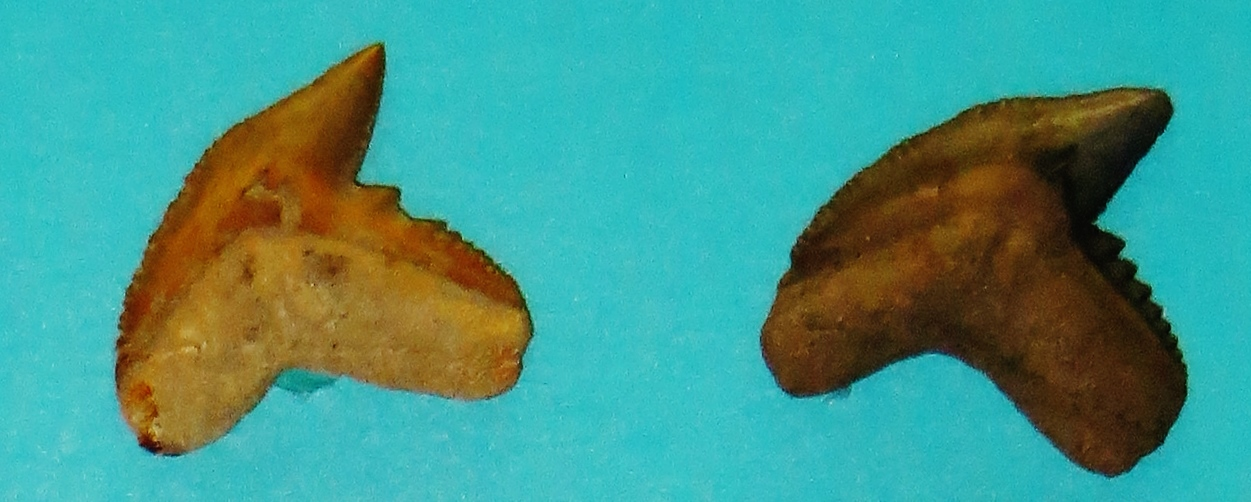 Fossil tooth of Galeocerdo. Took the picture at Museo di Storia Naturale, Milano